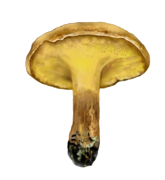 Gyrodon lividus